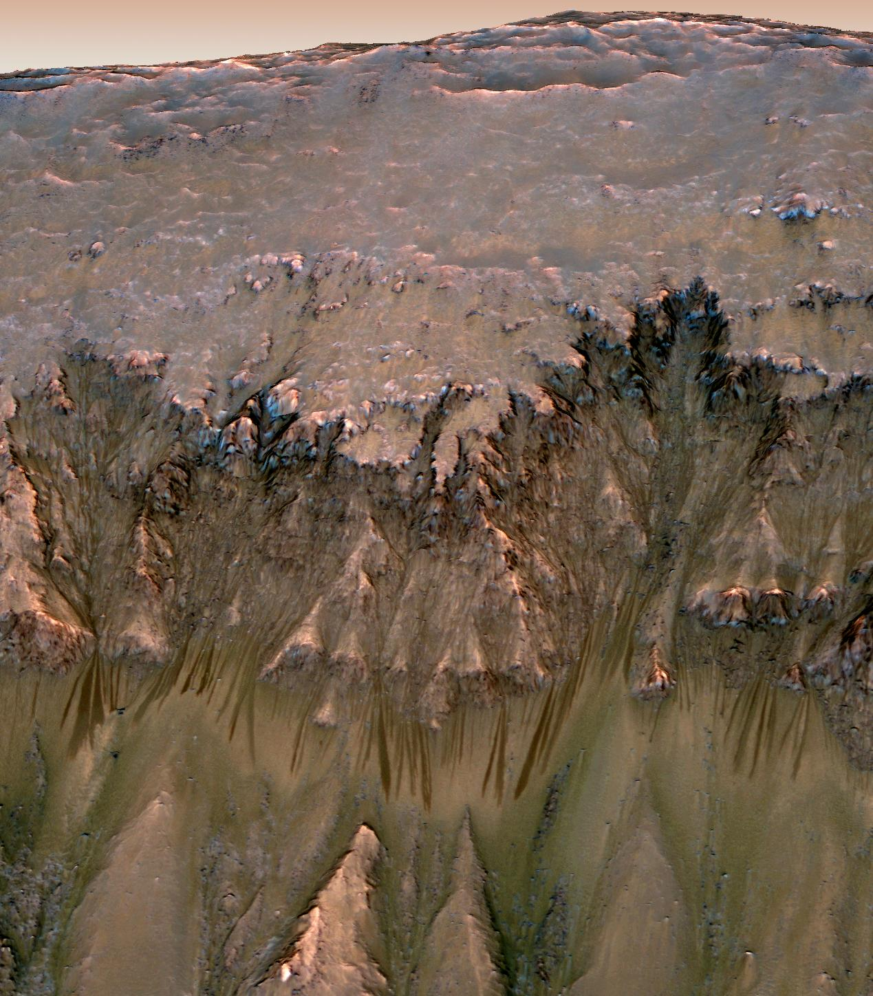 Oblique view of warm season flows in Newton Crater. An image combining orbital imagery with 3-D modeling shows flows that appear in spring and summer on a slope inside Mars' Newton crater. Sequences of observations recording the seasonal changes at this site and a few others with similar flows might be evidence of salty liquid water active on Mars today. Evidence for that possible interpretation is presented in a report by McEwen et al. in the Aug. 5, 2011, edition of Science. This image has been reprojected to show a view of a slope as it would be seen from a helicopter inside the crater, with a synthetic Mars-like sky. The source observation was made May 30, 2011, by the High Resolution Imaging Science Experiment (HiRISE) camera on NASA's Mars Reconnaissance Orbiter. Color has been enhanced. The season was summer at the location, 41.6 degrees south latitude, 202.3 degrees east longitude. The flow features are narrow (one-half to five yards or meters wide), relatively dark markings on steep (25 to 40 degree) slopes at several southern hemisphere locations. Repeat imaging by HiRISE shows the features appear and incrementally grow during warm seasons and fade in cold seasons. HiRISE is operated by the University of Arizona, Tucson, and the instrument was built by Ball Aerospace & Technologies Corp., Boulder, Colo. NASA's Jet Propulsion Laboratory, a division of the California Institute of Technology in Pasadena, manages the Mars Reconnaissance Orbiter for NASA's Science Mission Directorate, Washington. Lockheed Martin Space Systems, Denver, built the spacecraft. Other imagery related to these new findings from the Mars Reconnaissance Orbiter is at .